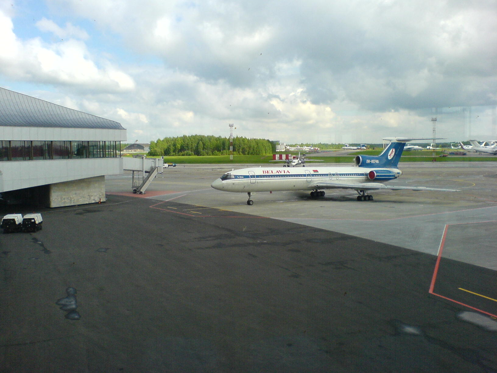 Belavia Tu-154M at Minsk National Airport (Minsk-2)